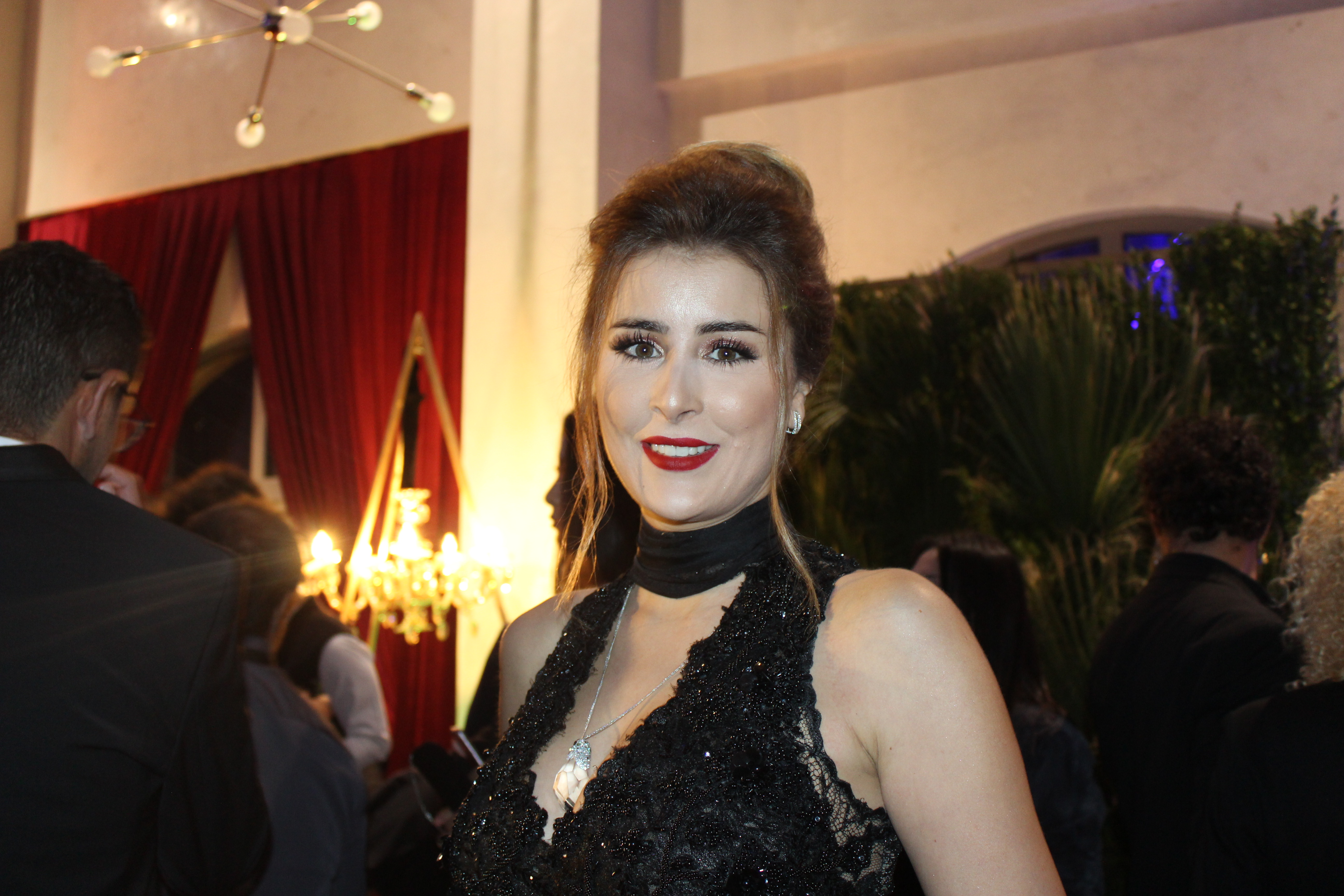 Opening ceremony of the 2018 Carthage Film Festival